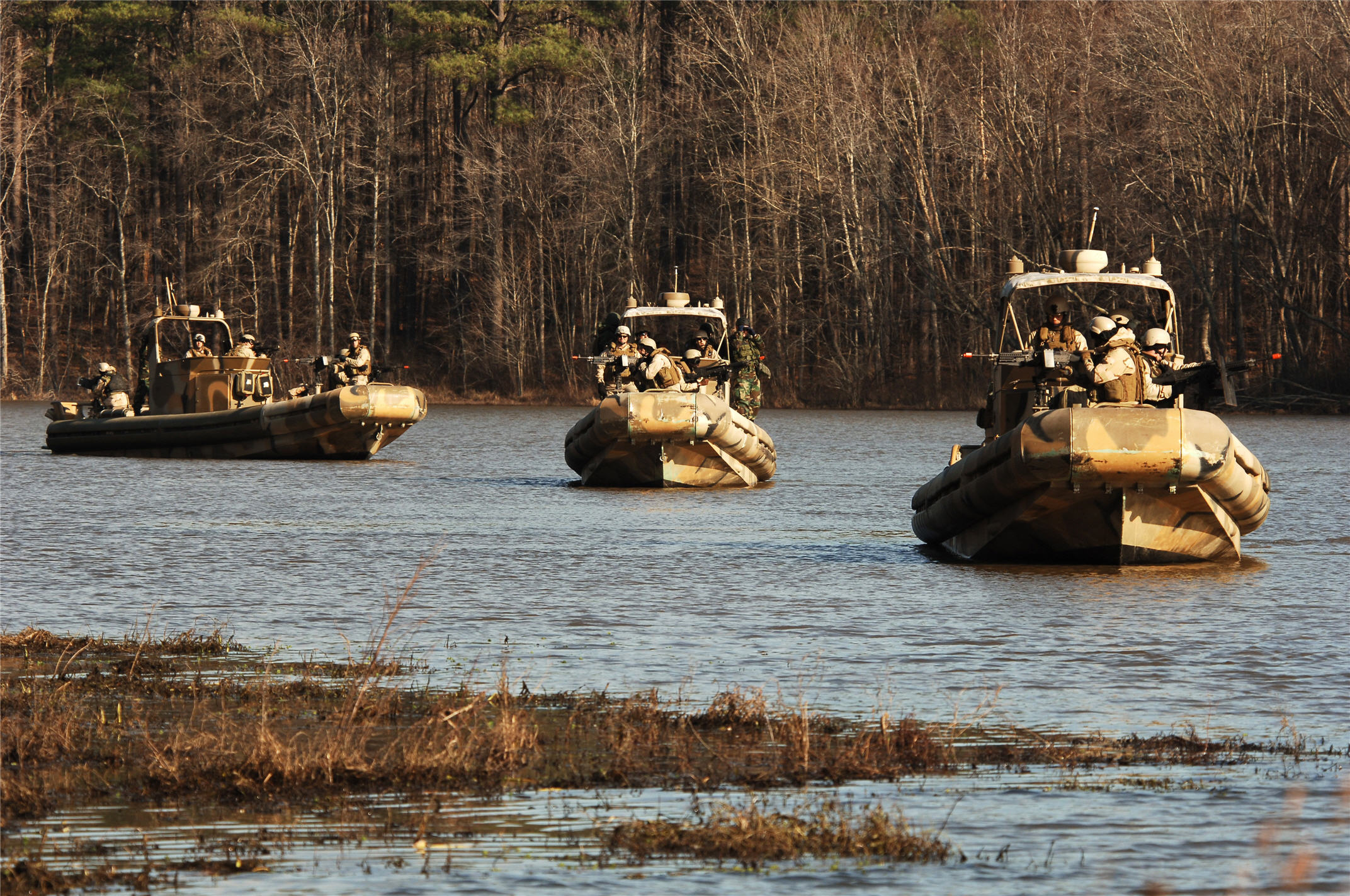 Fort Pickett, Va. (Jan. 23, 2007) – Sailors assigned to Riverine Squadron One (RIVRON-1), based at Naval Amphibious Base Little Creek, train aboard small unit river craft (SURC), during a unit-level training exercise. RIVRON-1 is part of the Navy Expeditionary Combat Command (NECC).